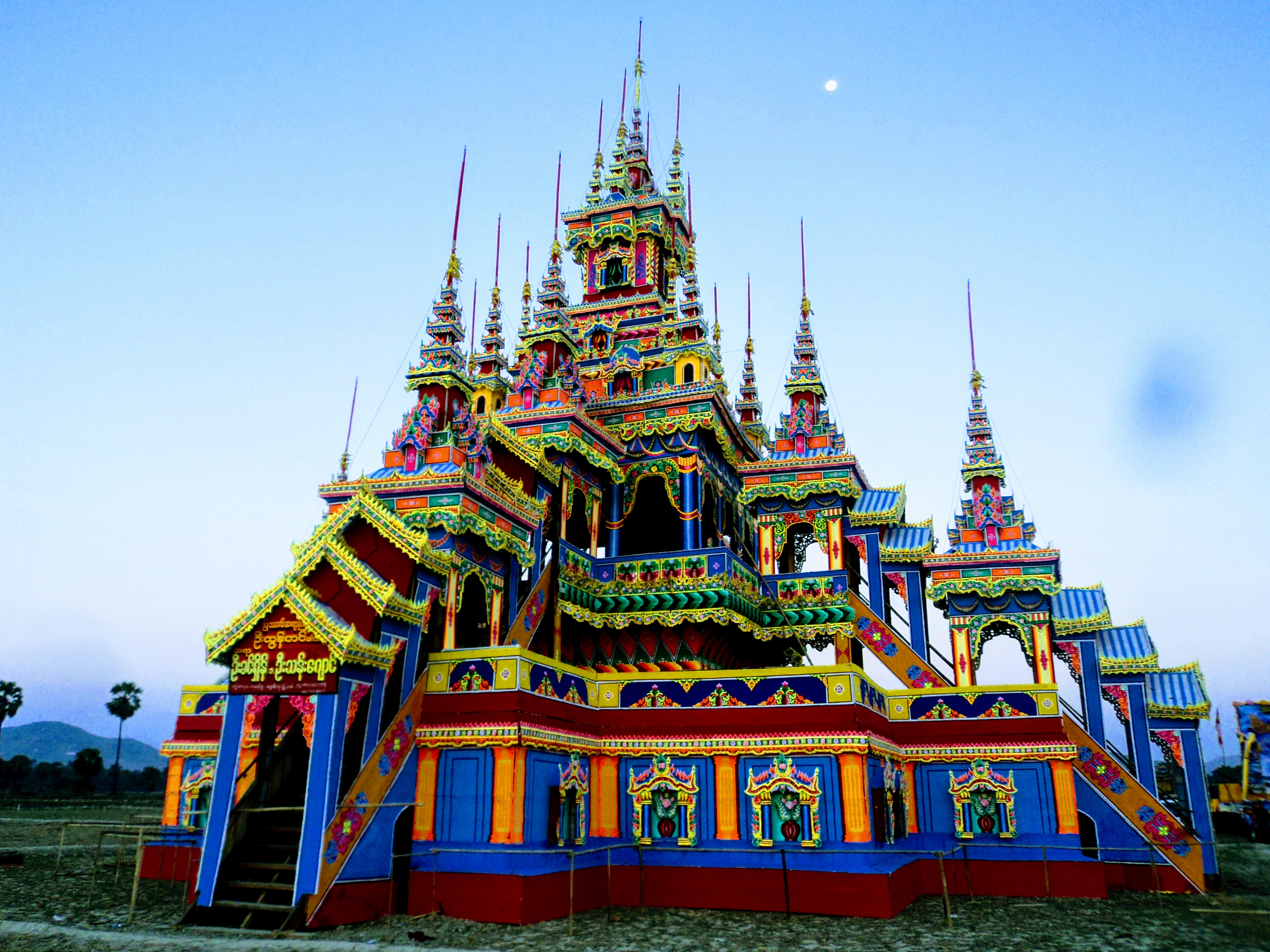 Funeral Temporary Building with a tiered of Burmese Buddhist Monk, Pa-Auk Village, Mon State မြန်မာဘာသာ: သံဃာတော် ဈာပန (ဘုန်းကြီးပျံ) ယာယီ ပြာသာဒ် ဘေးဘက်ပုံ၊ ဖားအောက်ကျေးရွာ၊ မွန်ပြည်နယ်။